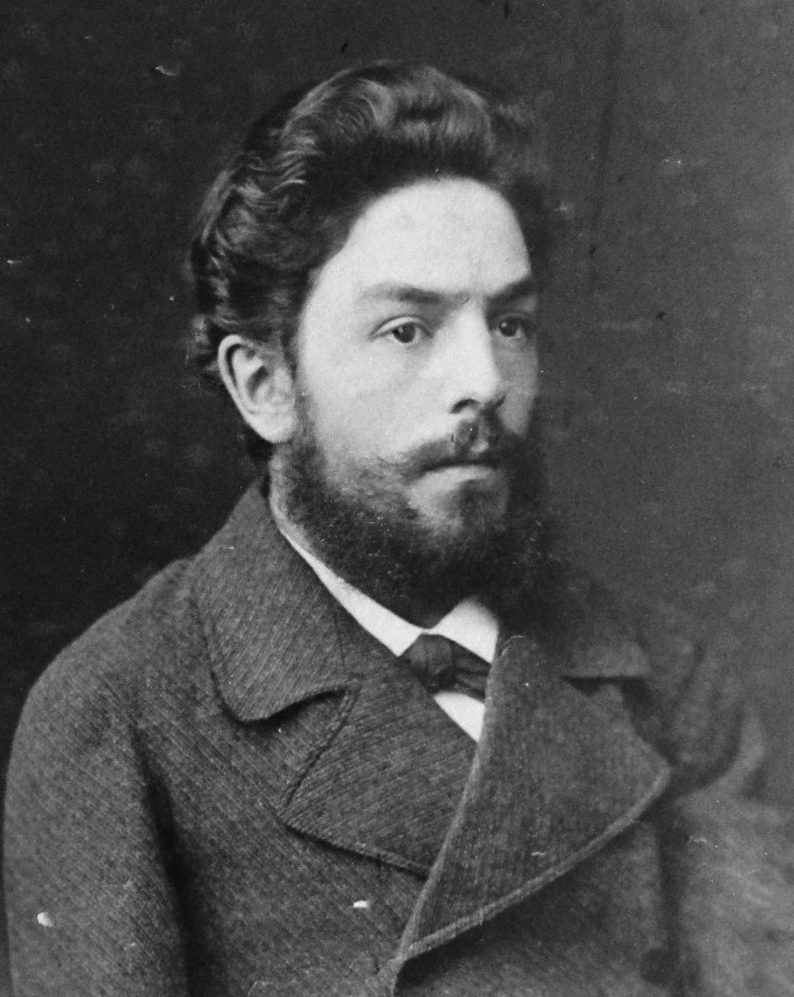 Aleksander von der Bellen (1859–1924), Russian politician from Pskov